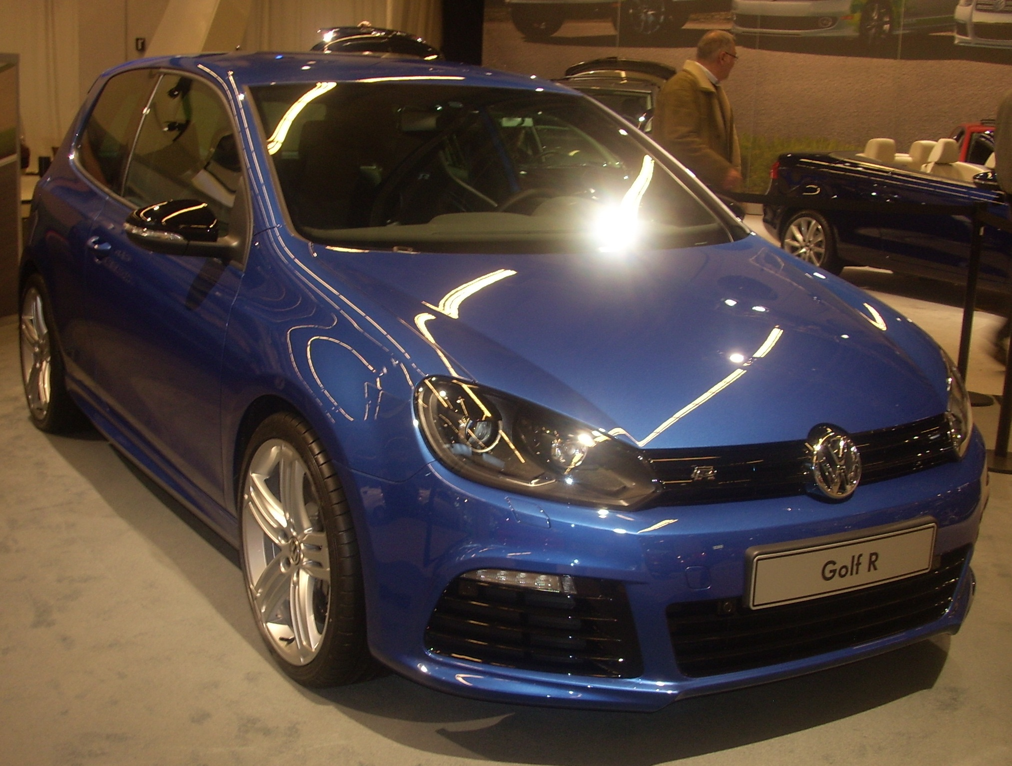 Volkswagen Golf Concept R photographed in Montreal, Quebec, Canada at the 2010 Montreal International Auto Show.